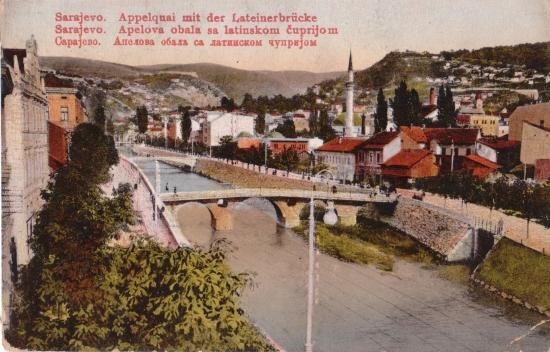 Latin Bridge in Sarajevo A photo of an old postcard from my collection.